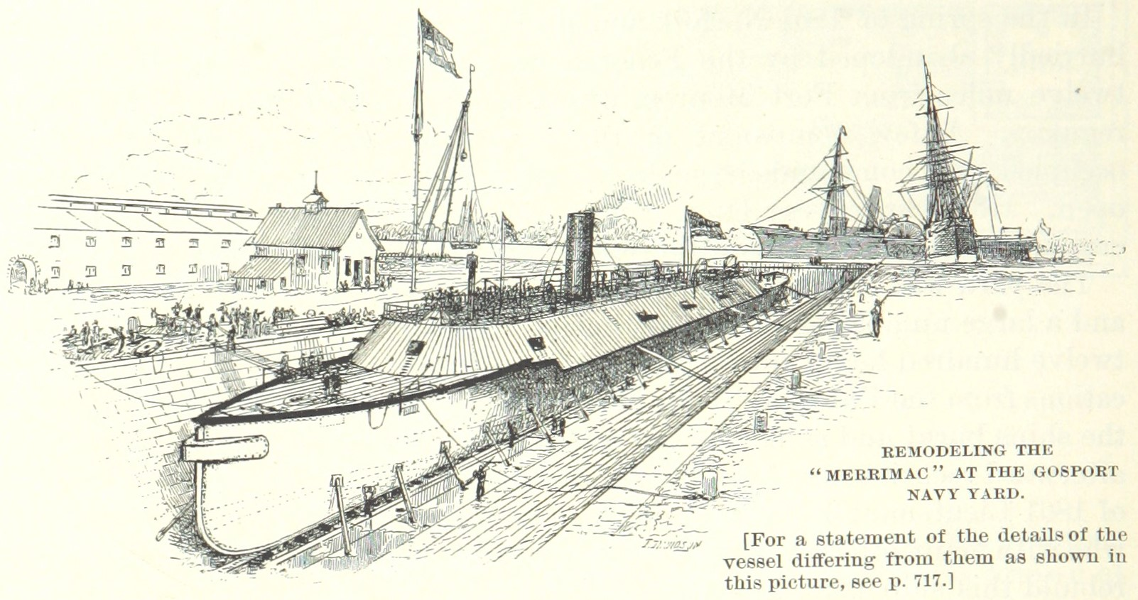 The CSS Virginia (ex USS Merrimack) is rebuilt by the Confederates at Gosport Navy Yard.